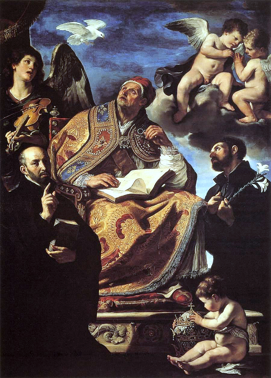 St Gregory the Great with Sts Ignatius and Francis Xavier by Guercino, 1626 - National Gallery, London